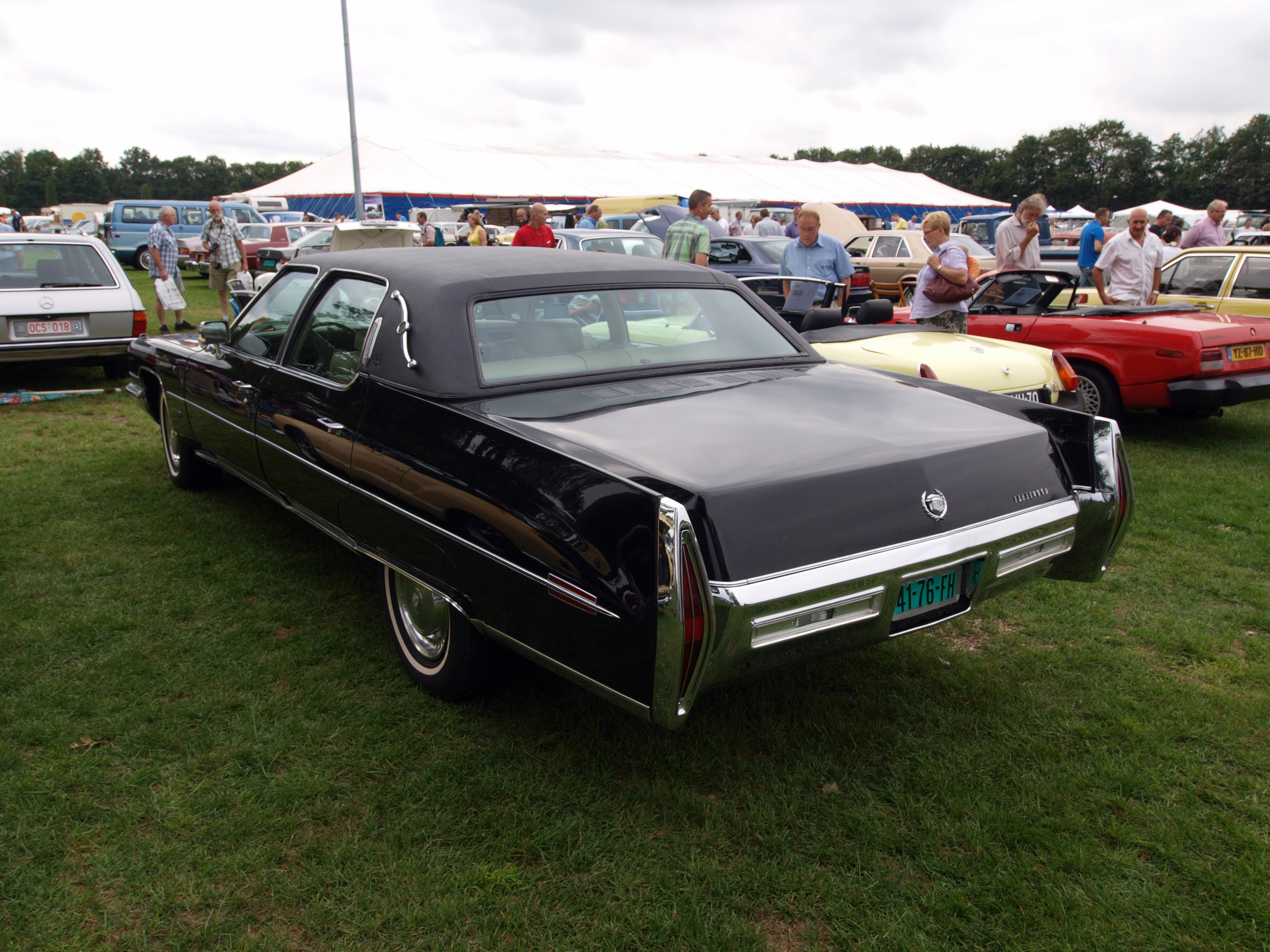 Photographed at the 2010 Autotron Classic car meeting, Rosmalen, The Netherlands. OLYMPUS DIGITAL CAMERA